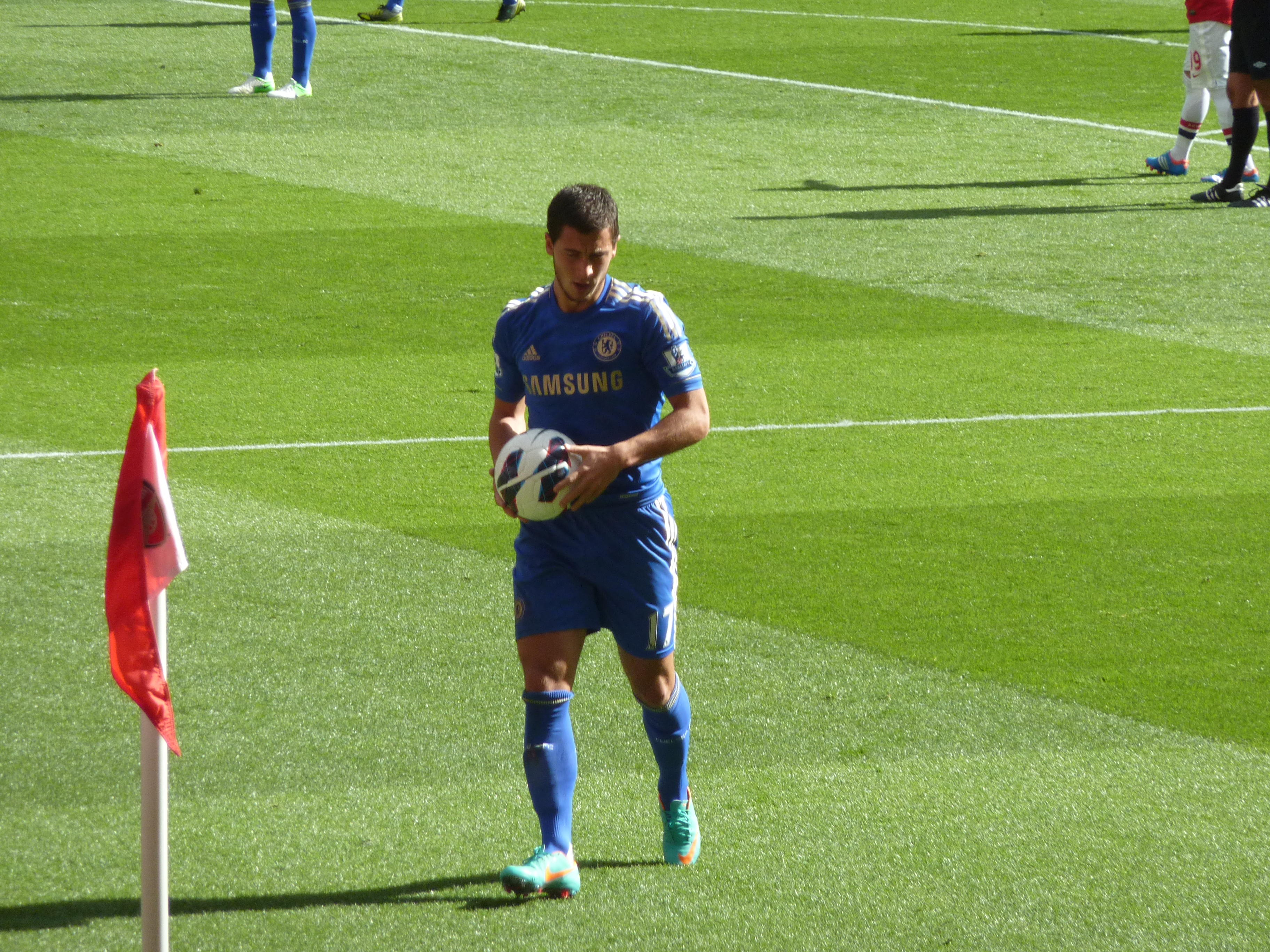 Eden Hazard playing for Chelsea against Arsenal in 2012.